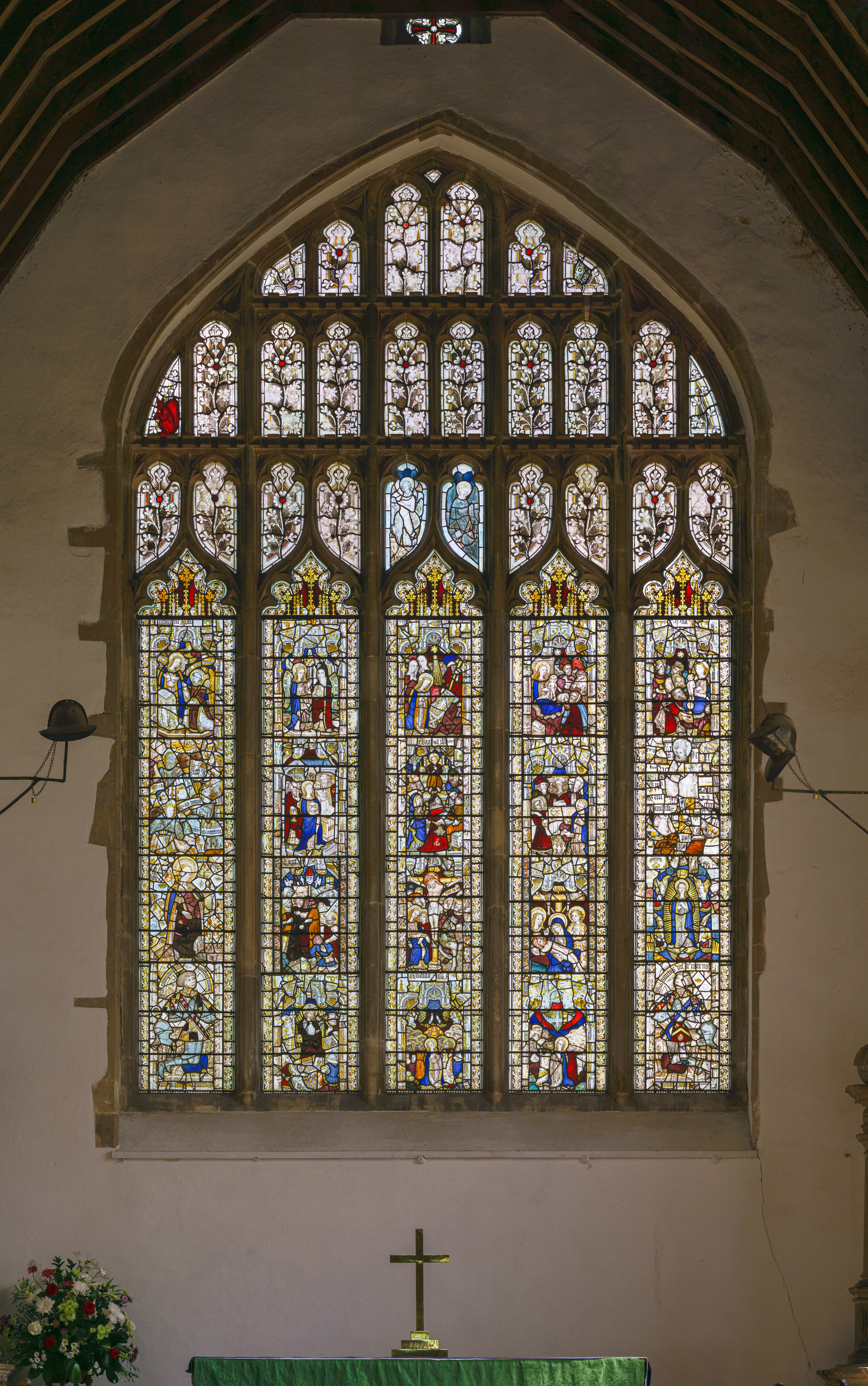 East window. Church of St Peter and St Paul